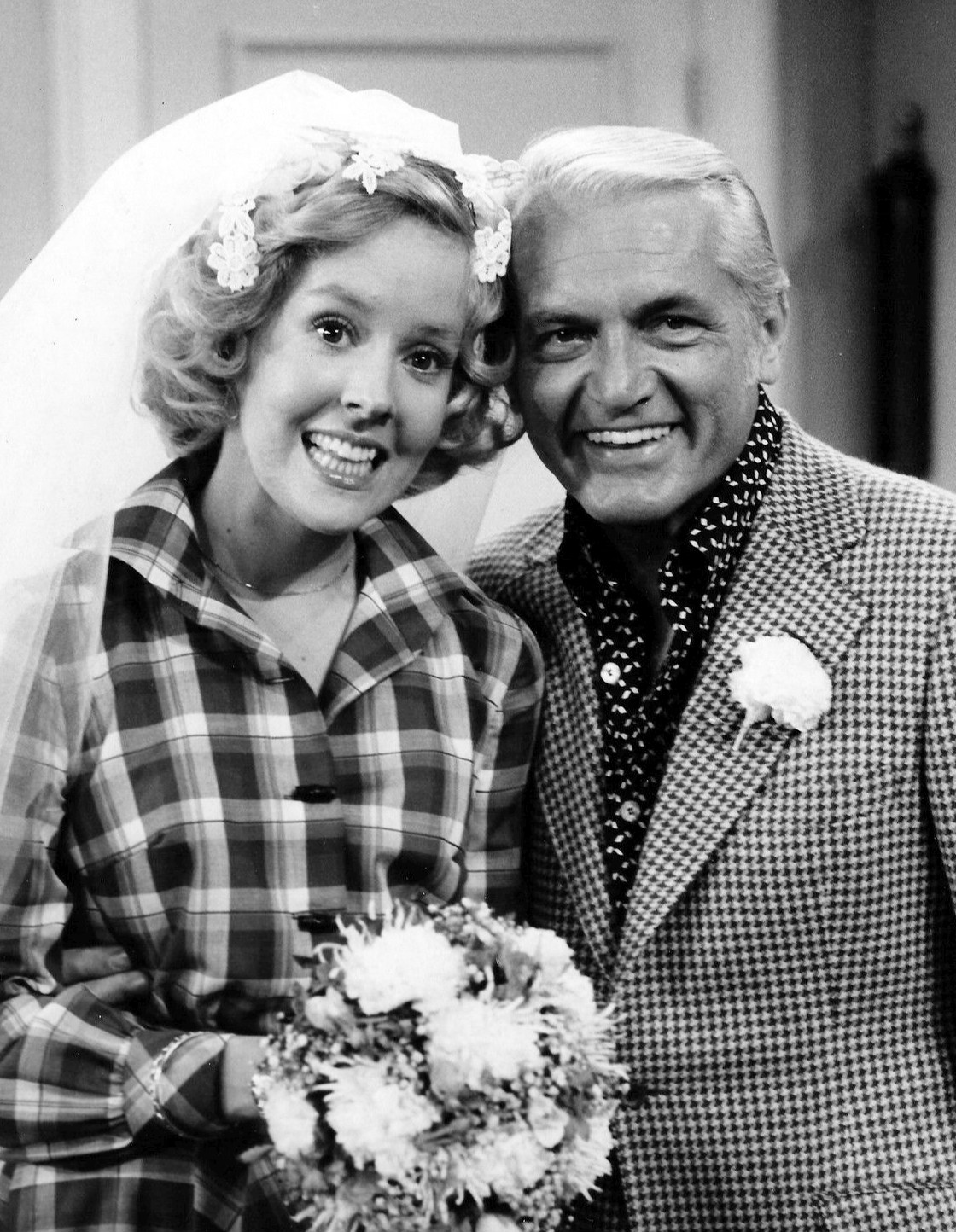 Photo of Georgia Engel and Ted Knight from the television program The Mary Tyler Moore Show. Georgette Franklin (Engel) and anchorman Ted Baxter (Knight) have just been married at an impromptu ceremony at Mary Richard's (Tyler Moore) apartment.